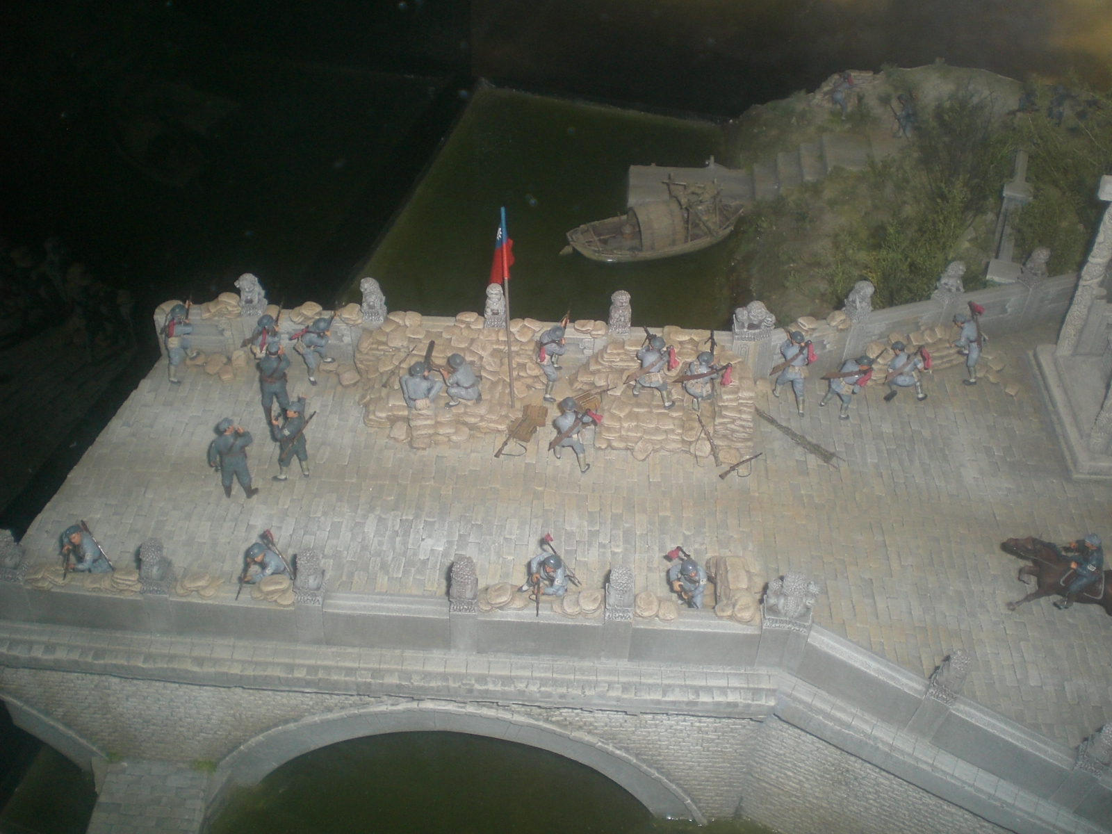 筲箕灣 香港海防博物館 國軍 盧溝橋